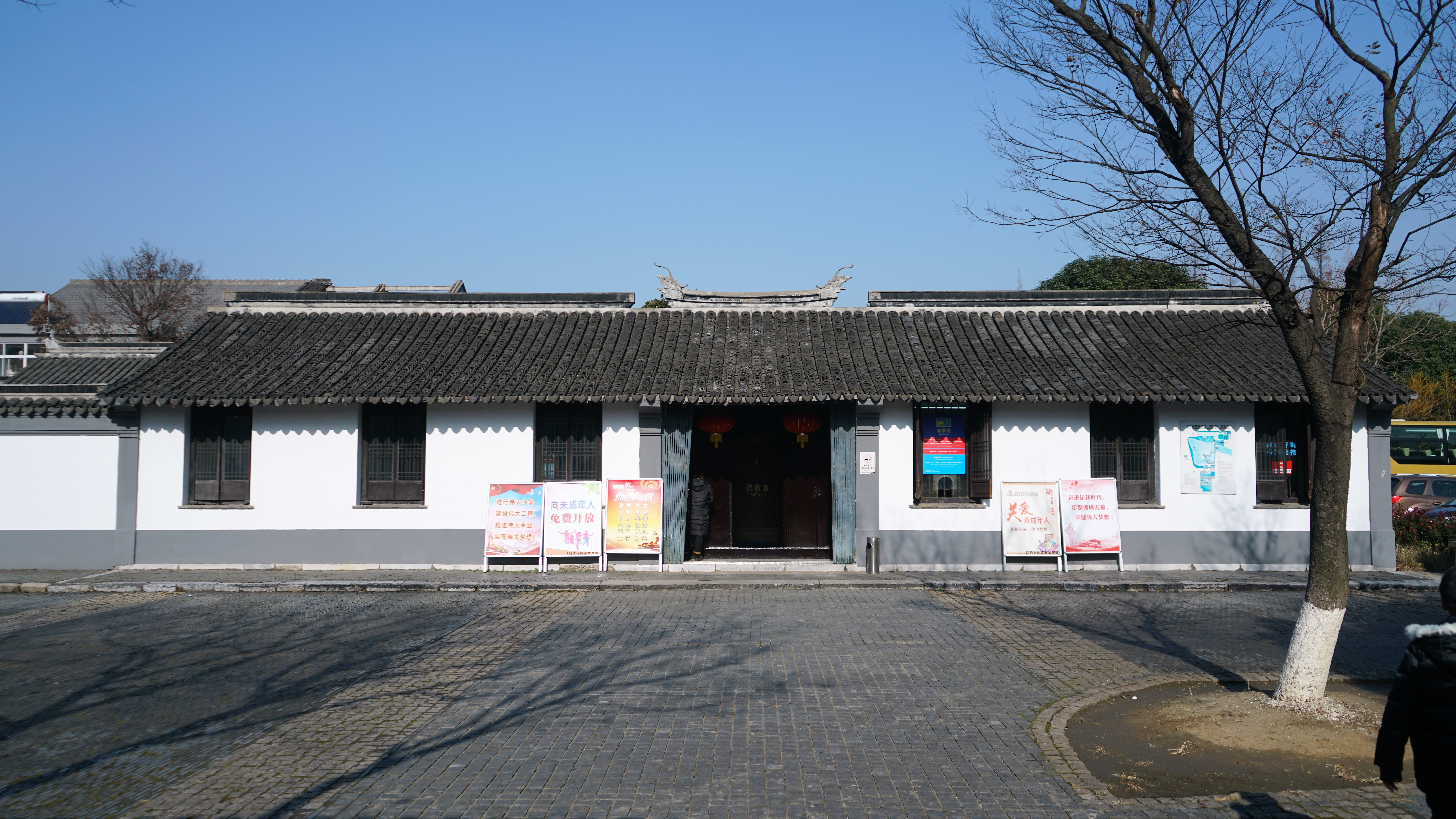 徐霞客故居入口